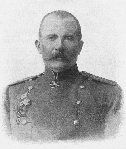 Leyming, Nikolay Aleksandrovich.